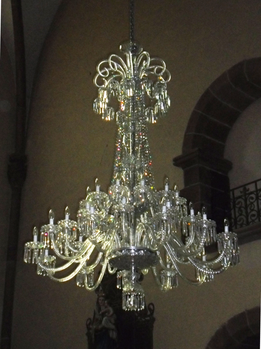 Münzthal-St.Louis in Lorraine, seat of the Saint-Louis crystal glass manufacturer.